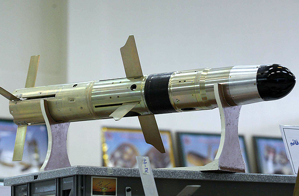 Iranian Qaem anti-aircraft missile, developed from the Toophan missile.